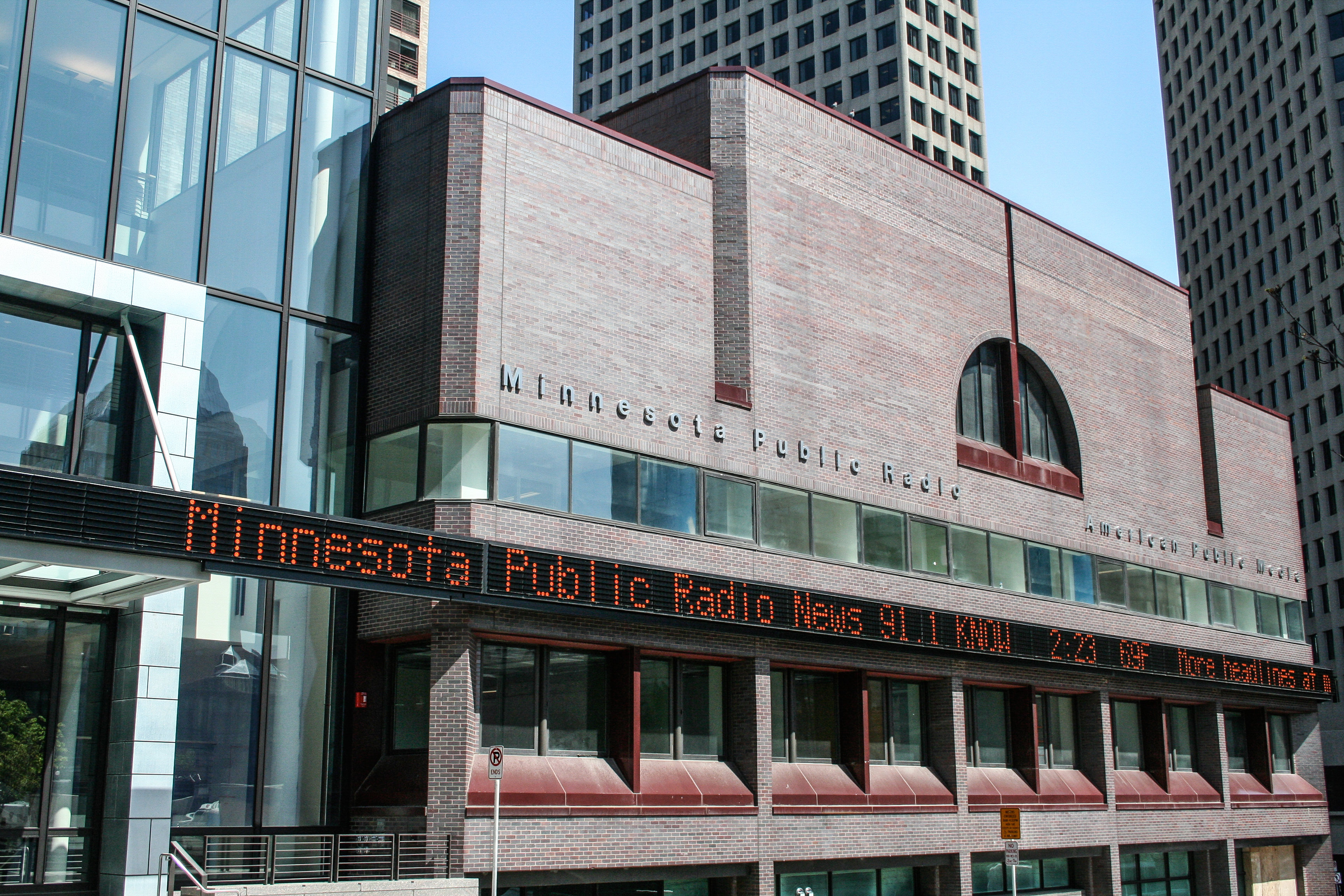 The news ticker at Minnesota Public radio in Saint Paul, Minnesota